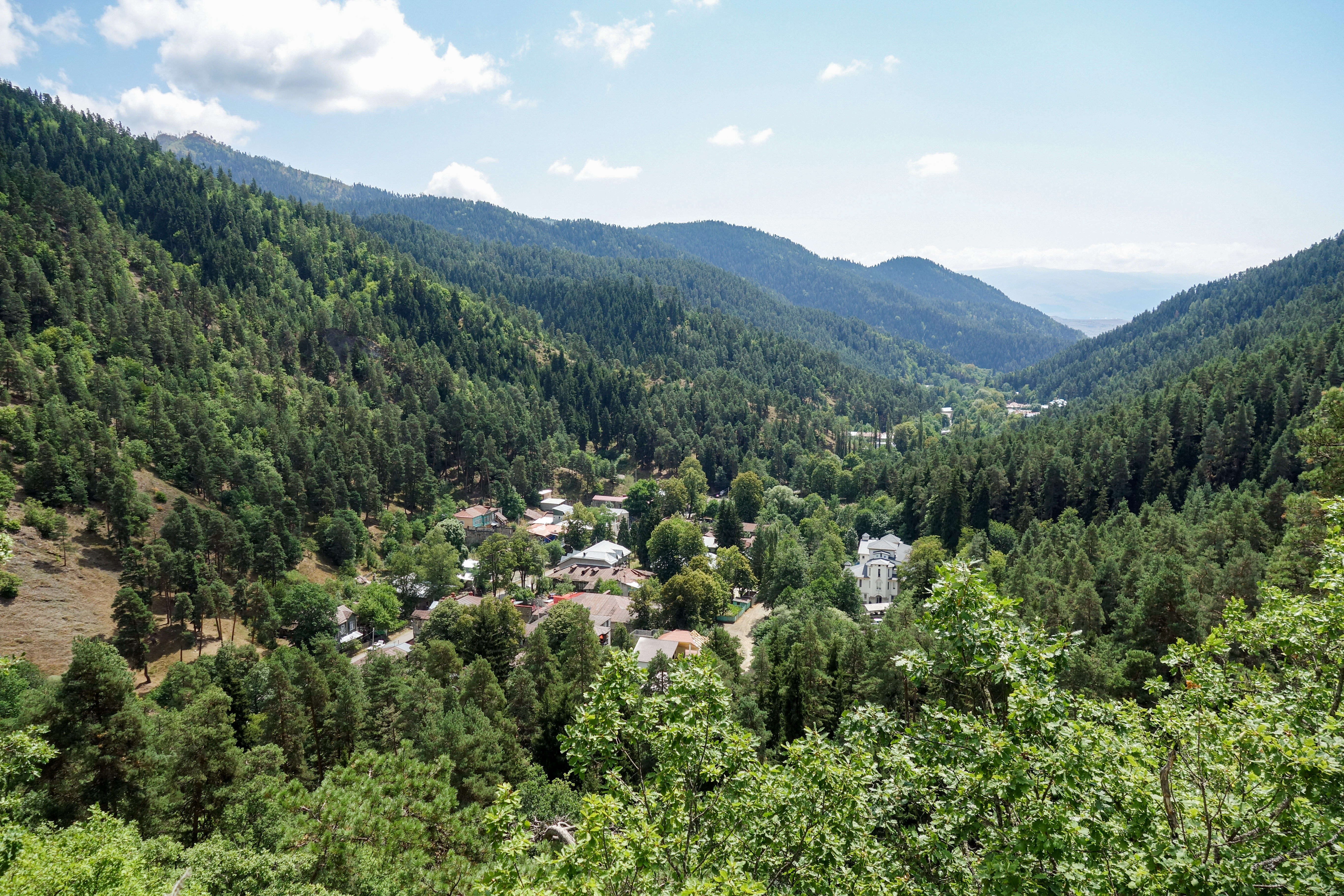 Abastumani, Samtskhe-Javakhet, Georgia